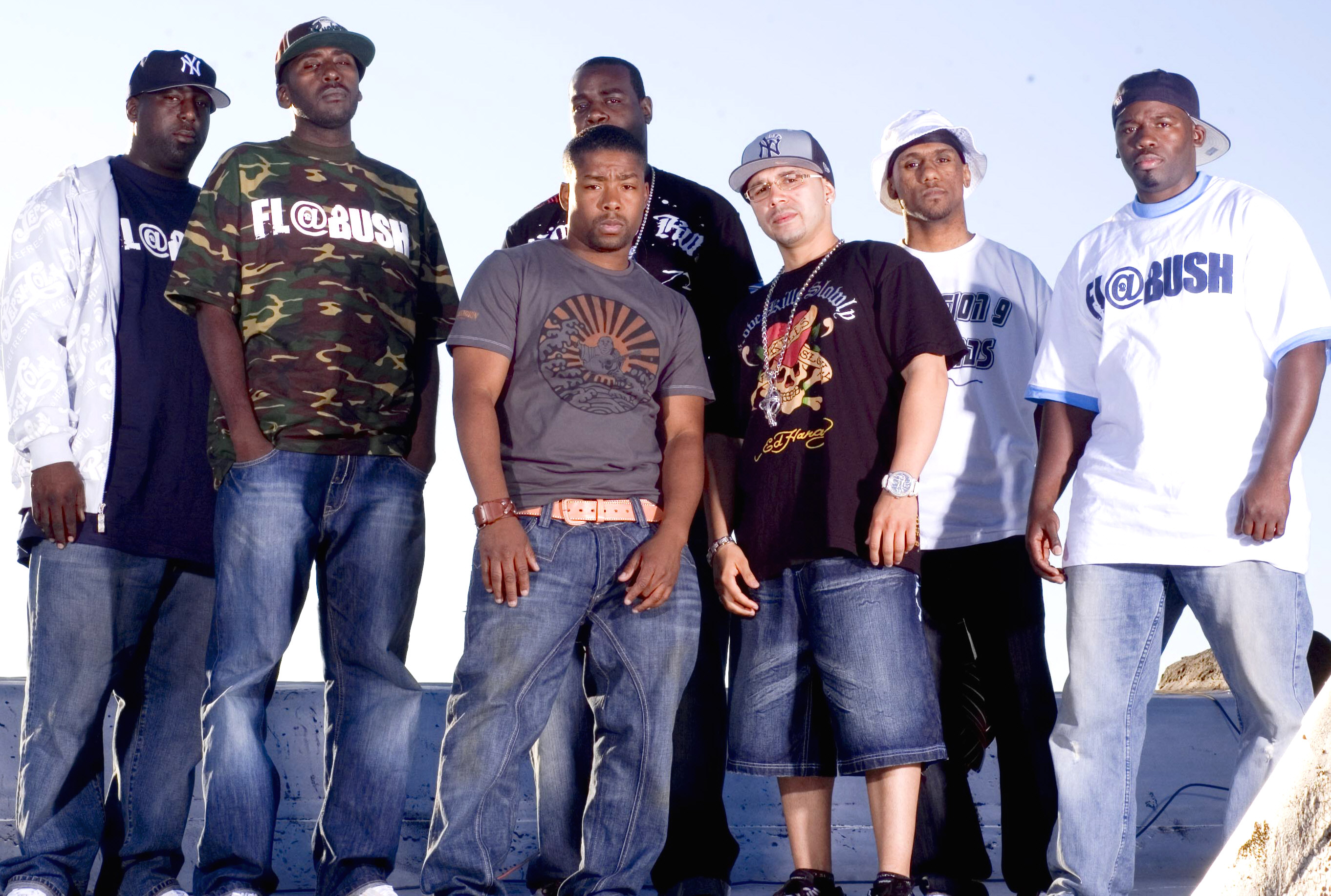 Street Loyalty photoshoot in Park Slope, Brooklyn